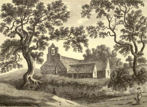 St Mary's Church, Pentraeth, Anglesey, Wales, shown in about 1774